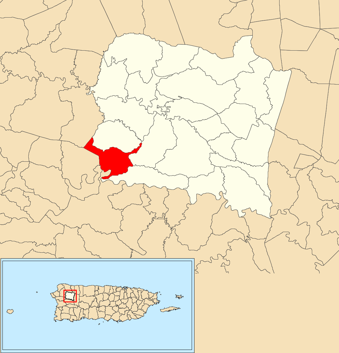 Alto Sano, San Sebastián, Puerto Rico locator map